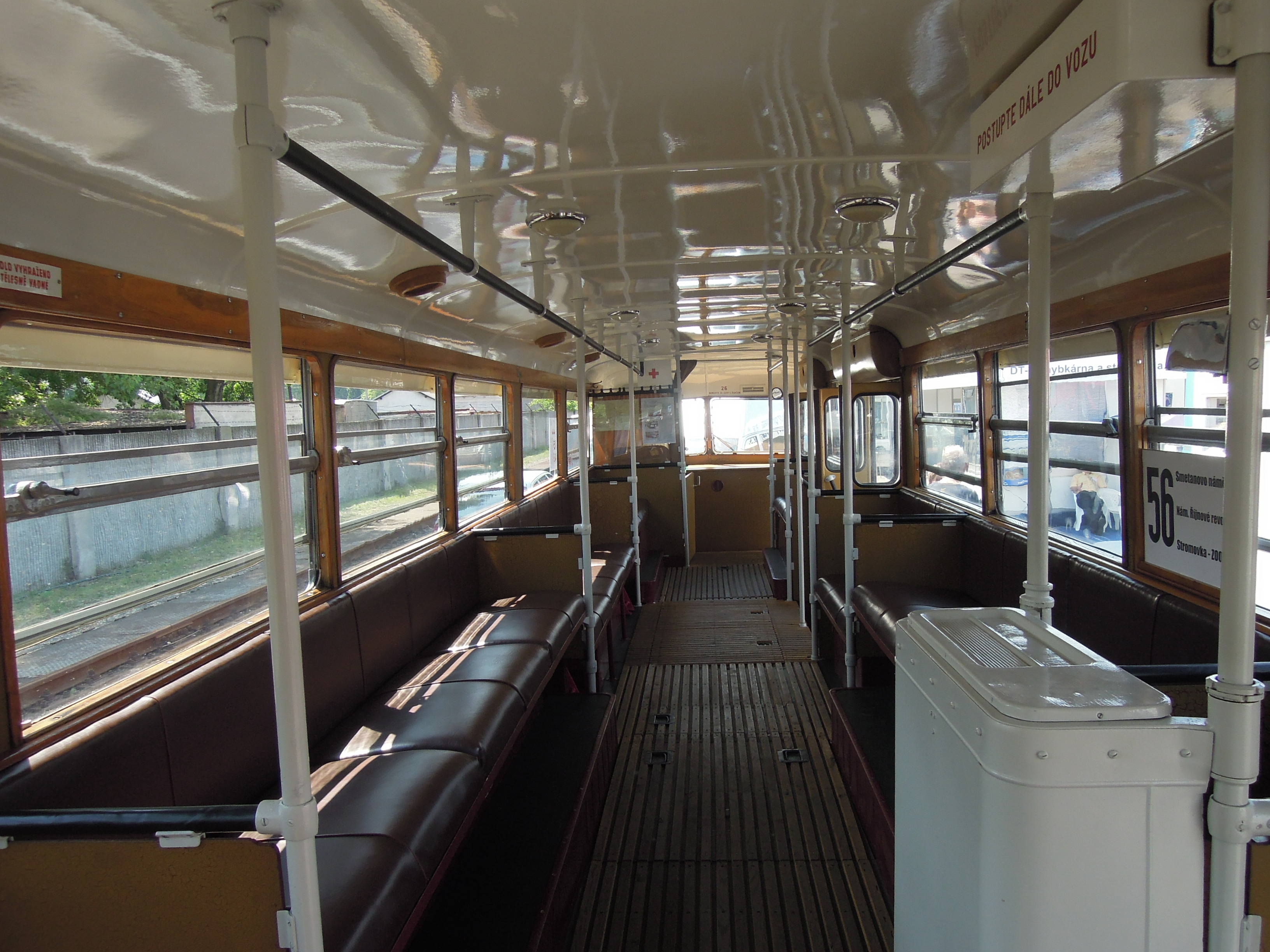 Tatra T 400 trolleybus of Dopravní podnik Ostrava at the Czech Raildays 2013 trade fair in Ostrava, Czech Republic